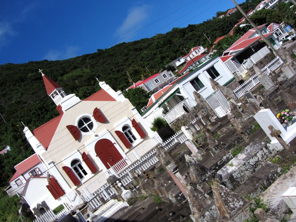 St. Paul's Conversion Church with Town Cemetery